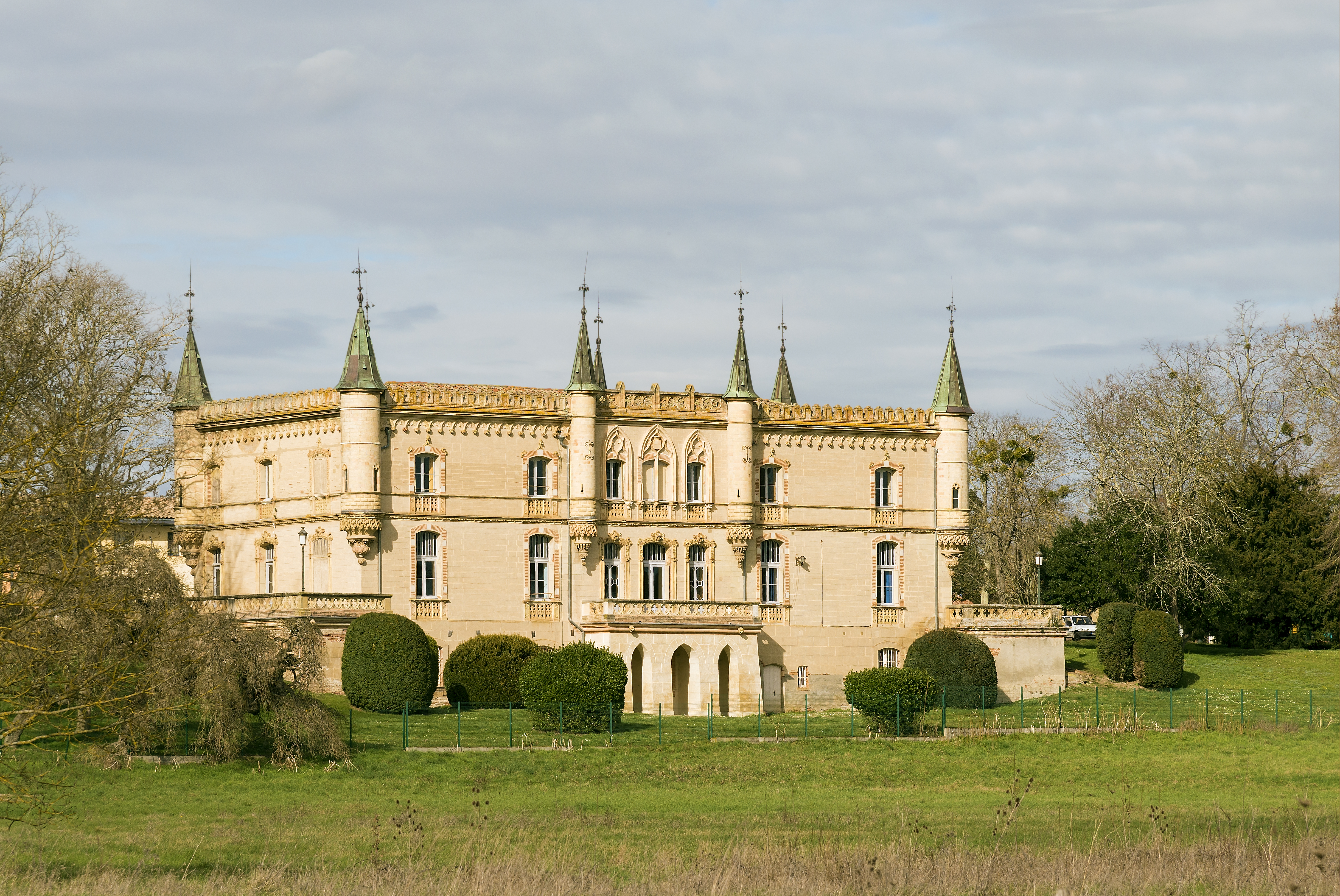 Château de Launaguet. Architect : Augustus Virebent. Current Town Hall of Launaguet. Southeast facade.